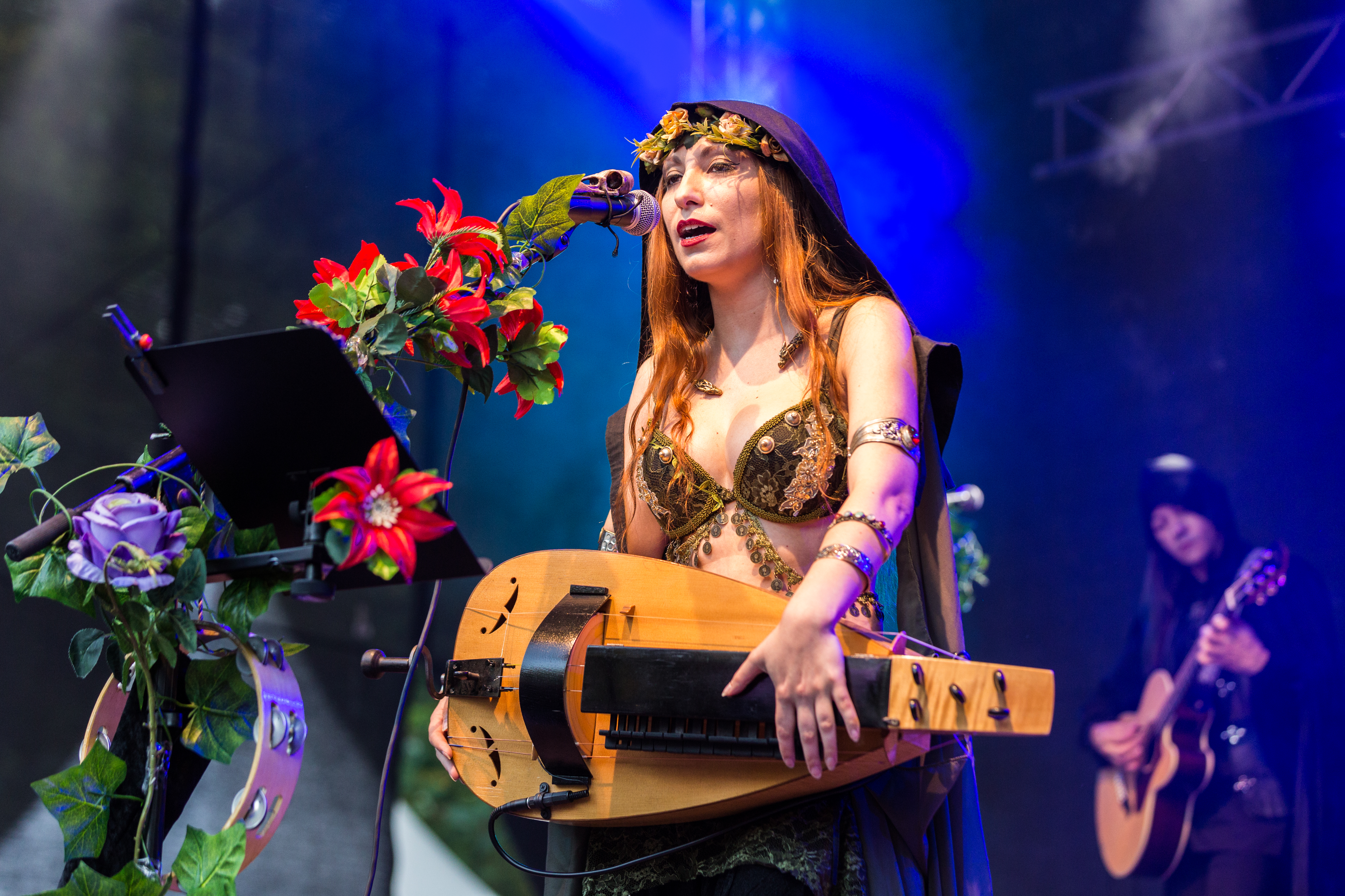 The Spanish medieval folk band Trobar de Morte at the Wave-Gotik-Treffen 2017 in Leipzig/Germany (Venue Heathen village).